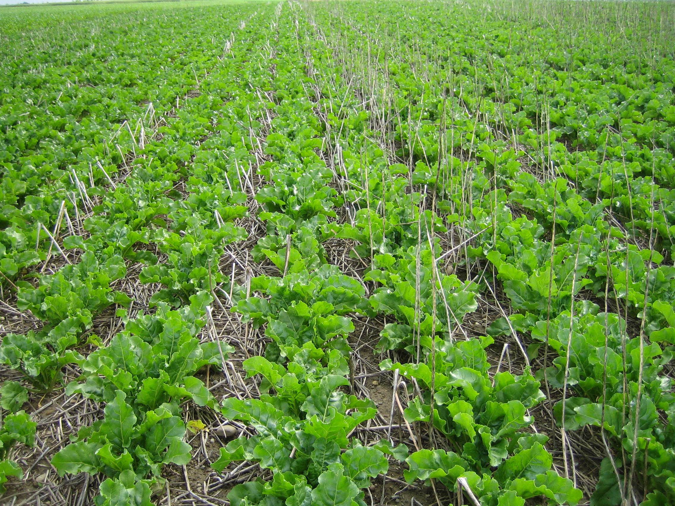 Sugar beet field, canton of Bern, Switzerland